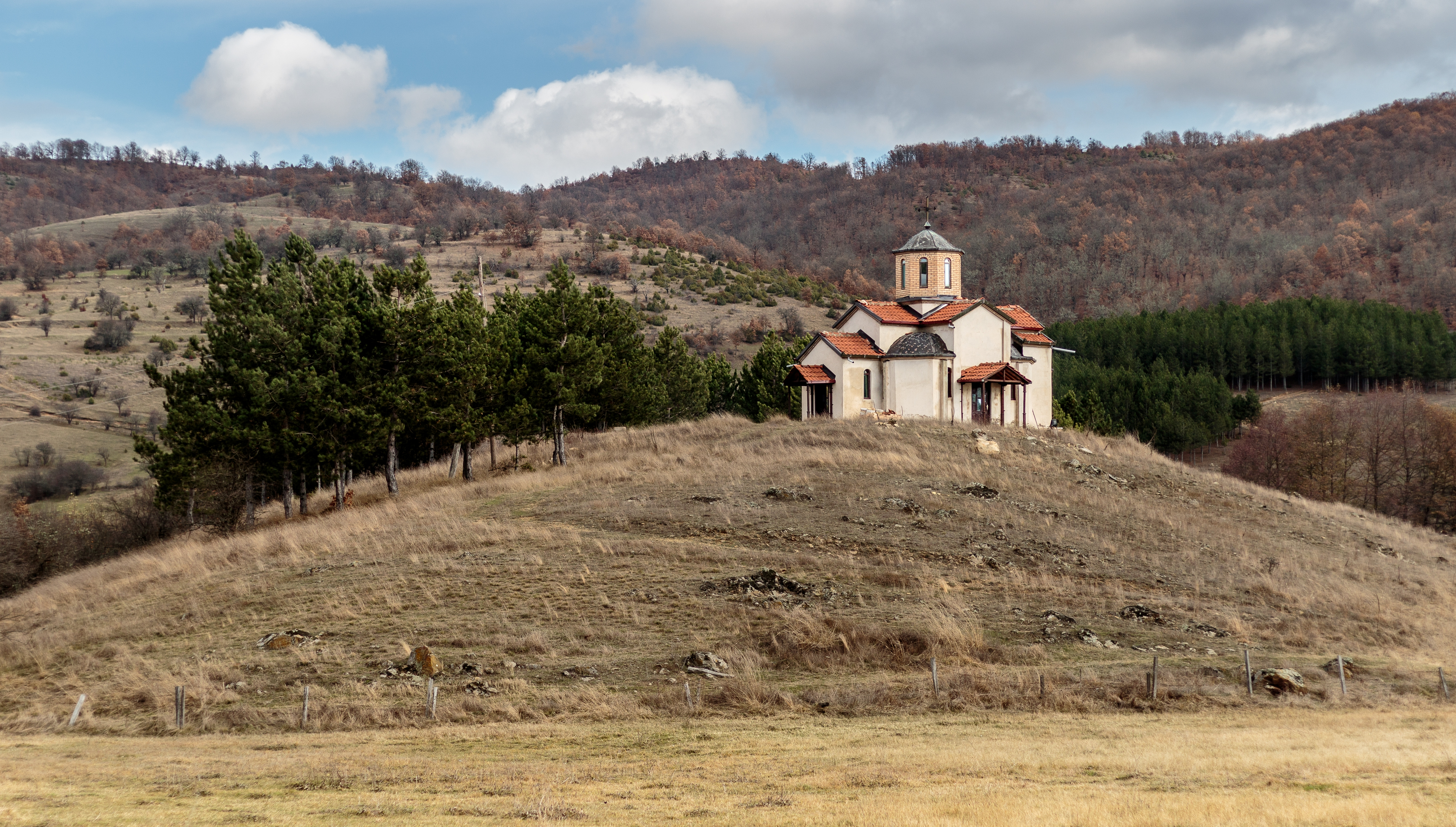 View of the newly built St. Elijah's Church in the village of Mitrašinci, Maleševija, Macedonia